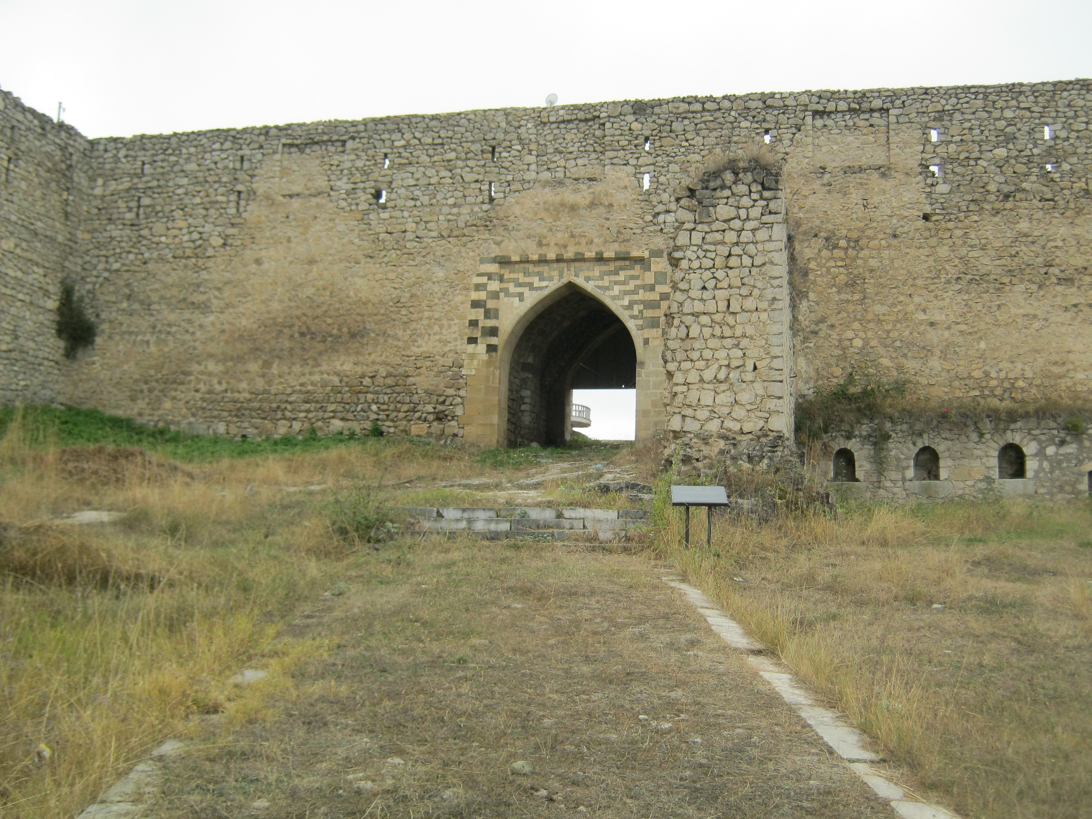 Ganja Gates. Shusha, Azerbaijan